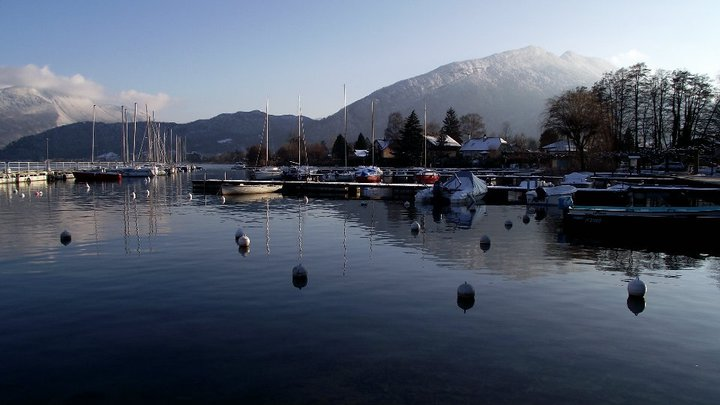 Sight on commune of Saint-Jorioz little harbour, near Annecy in Haute-Savoie, France.